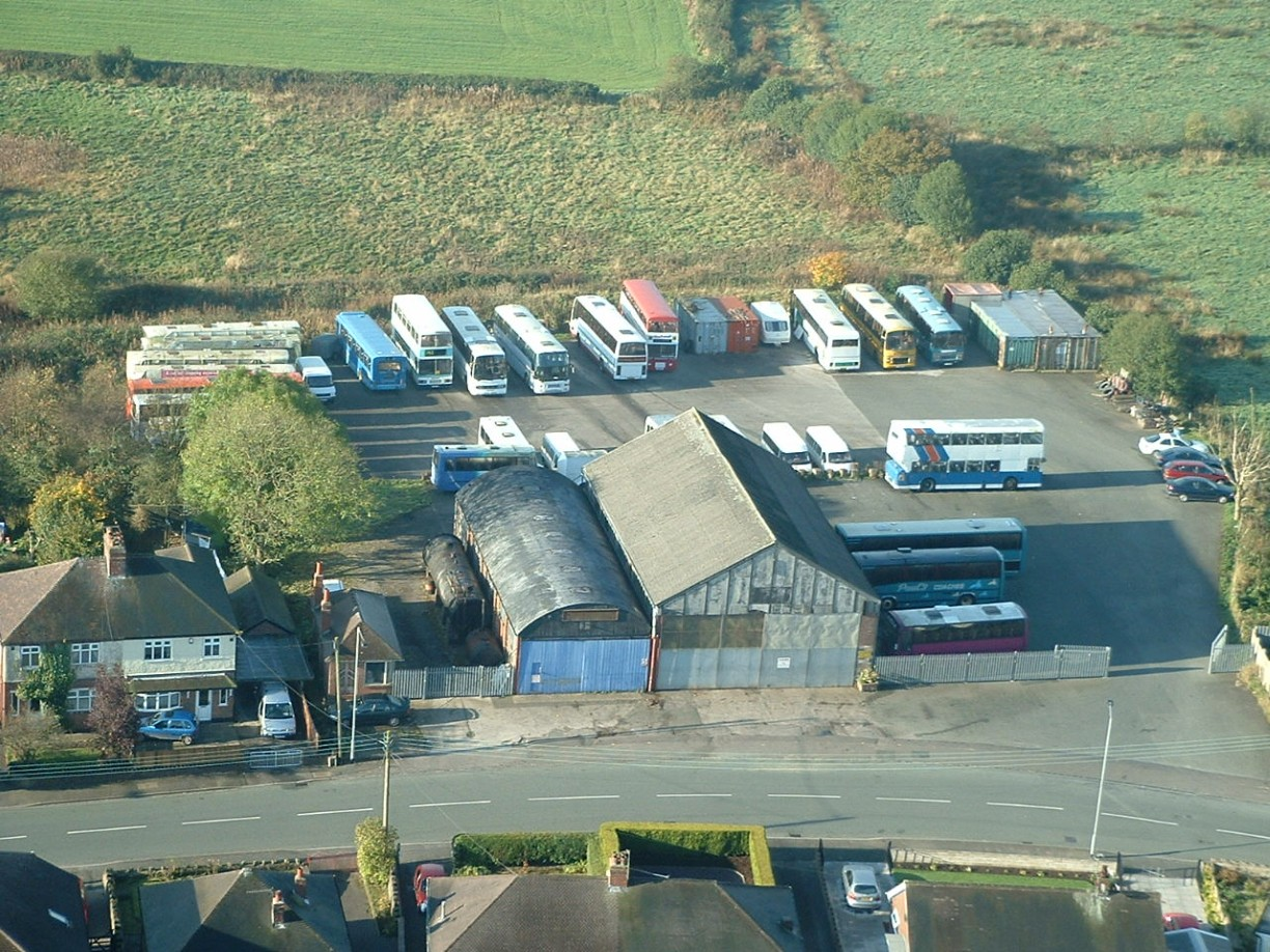 The former Rowbottom's Bus Depot and Critchlow's Garage. Now used again as a bus depot